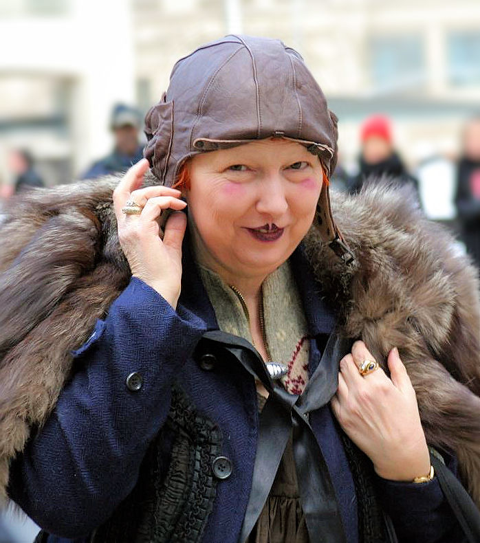 Photo of Lynn Yaeger in 2011 when fashion editor for the Village Voice, currently a fashion editor for Vogue